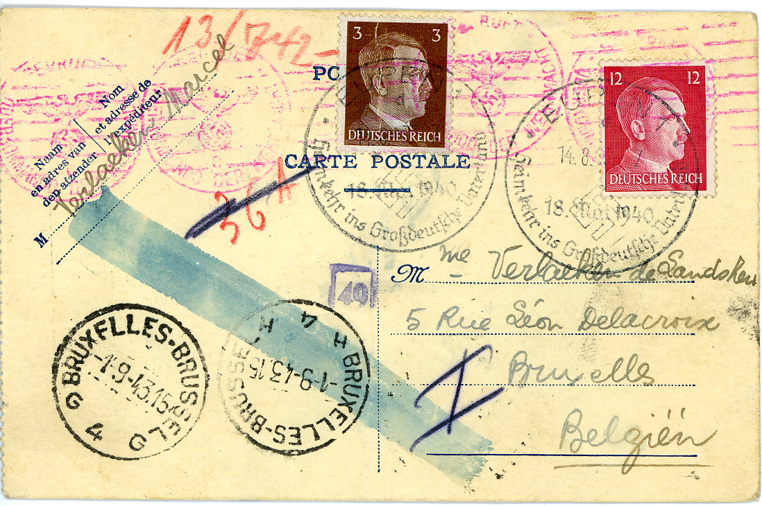 Postcard sent August 1943 during trip to Vorarlberg for imposed work with Eupen stamp "Heimkehr ins Grossdeutsch Vaterland", censored